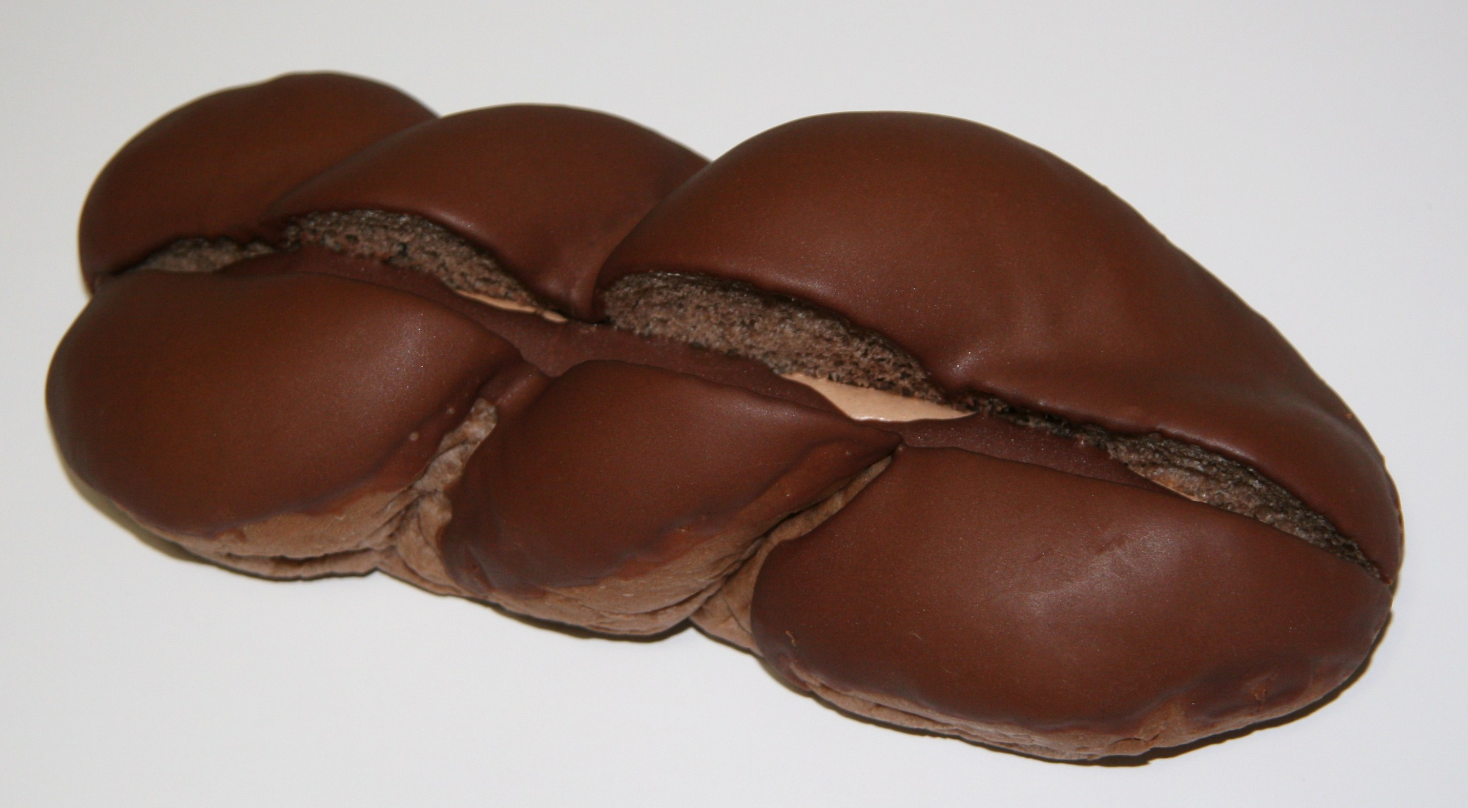 K-ON!! Golden Chocolate Bread sold at Lawson, made by Yamazaki